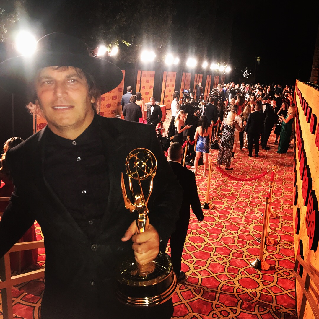 nathan ross at red carpet for 69th annual emmy awards